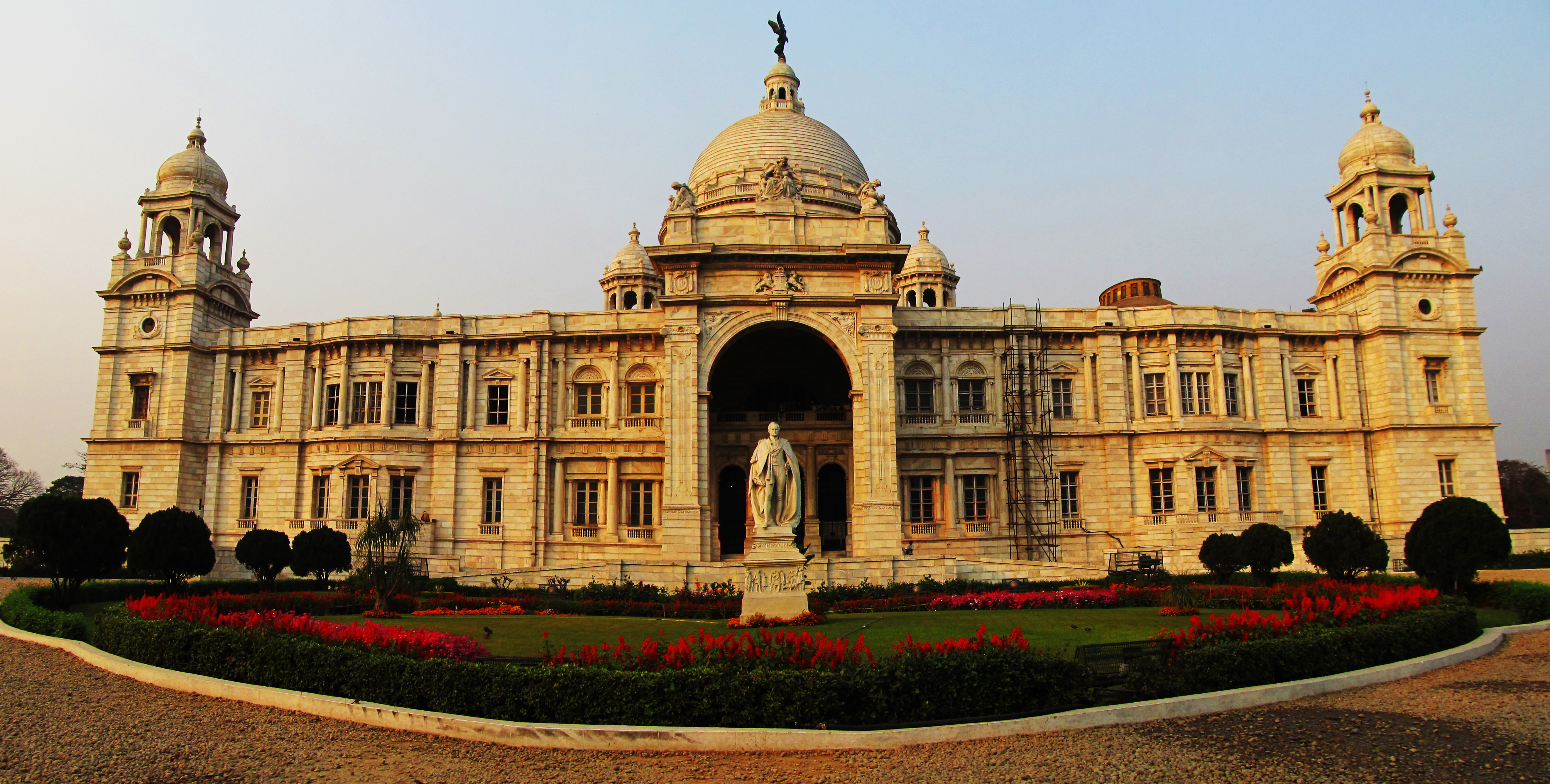 Front View of The Victoria Memorial Building.